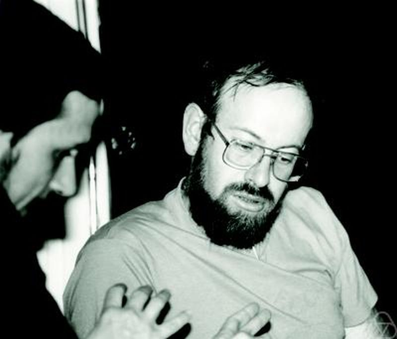 Micha Sharir 1987